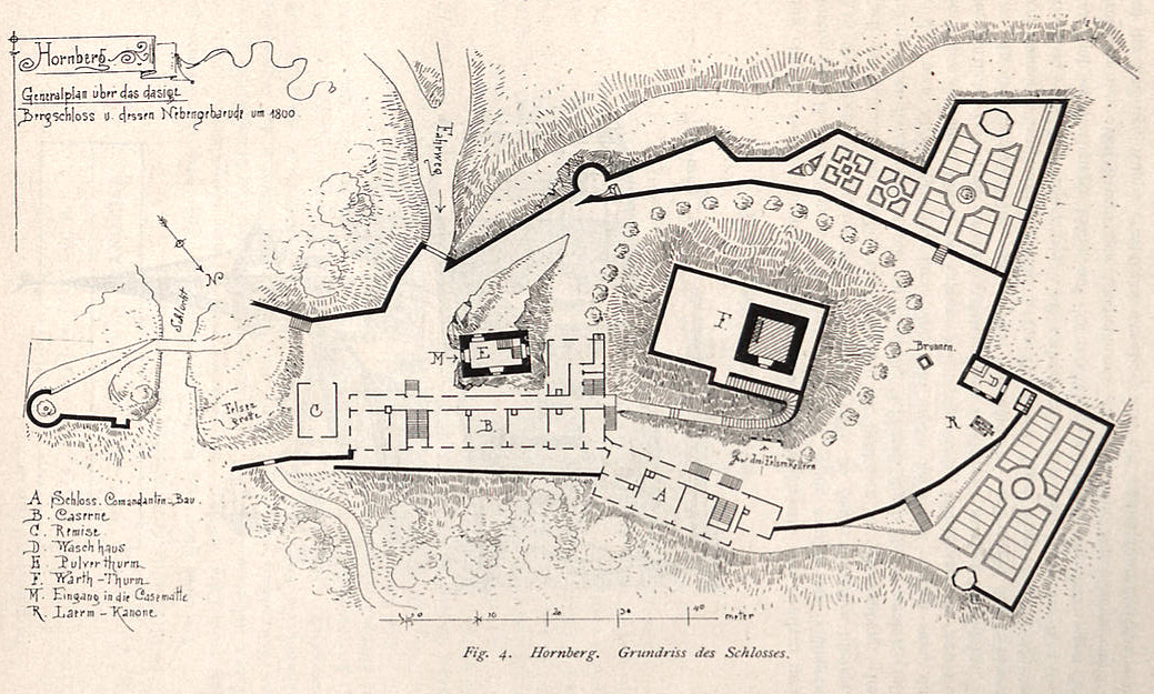 Ground plan of Hornberg castle